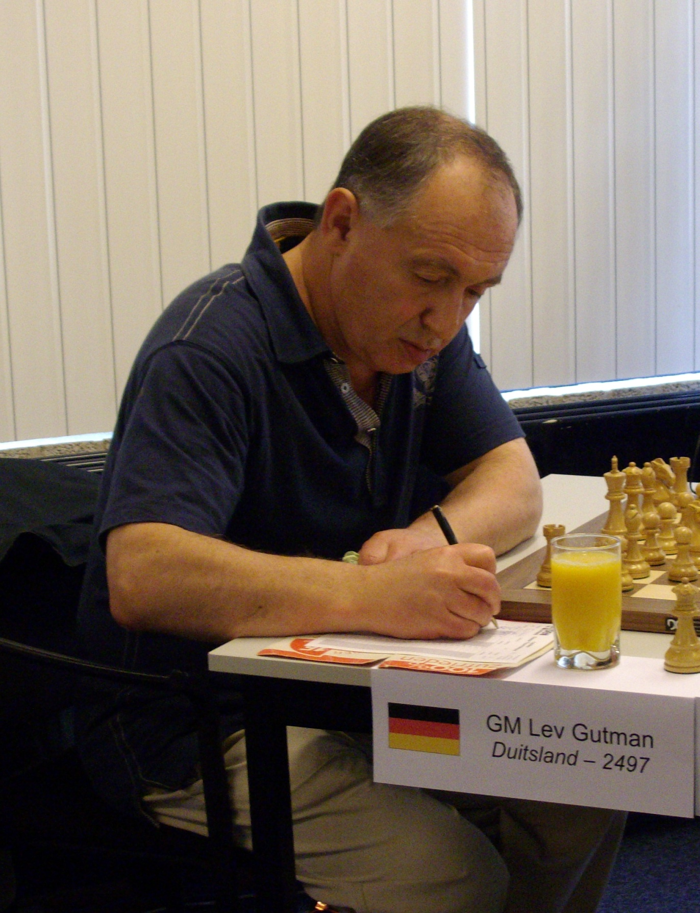 GM Lev Gutman, Germany, Leiden Chess Tournament 2008